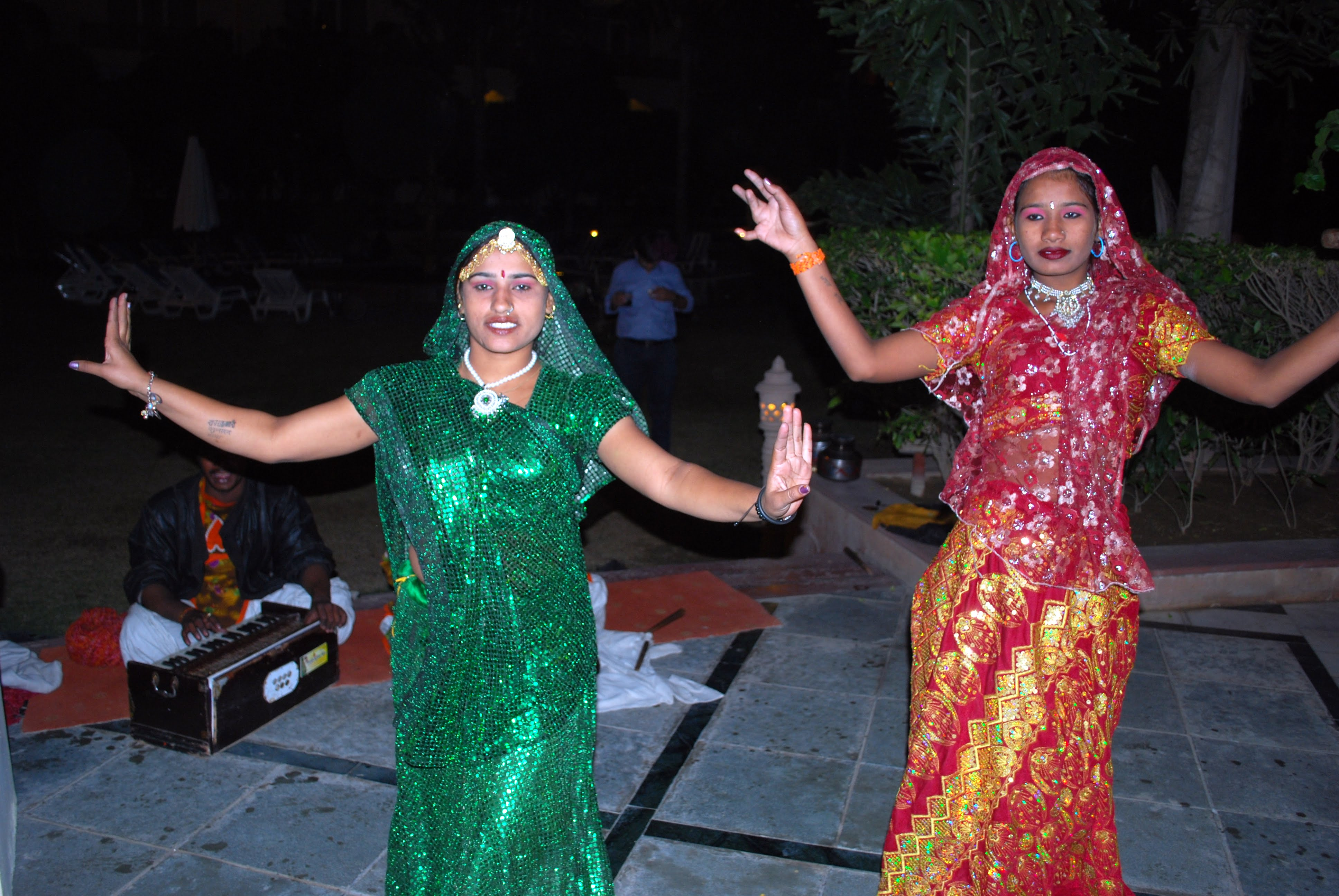 Banjara Ghoomar Dance. The Banjaras are a nomadic community in Rajasthan, known for their folk dances. The "Ghoomar" Dance involves a lot of swirling. Photo taken at Jaipur, Rajasthan.